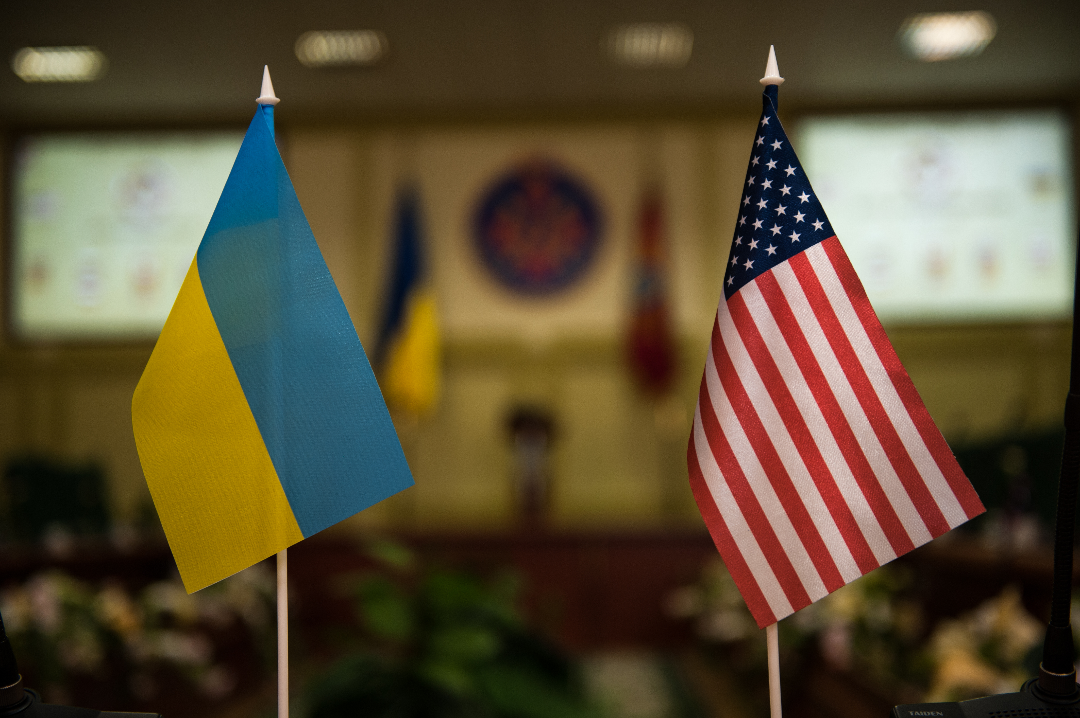 YAVORIV, Ukraine -- A Soldier from the Ukrainian military stands in formation during Exercise Rapid Trident’s opening ceremony here Sept. 15. Rapid Trident is an annual U.S. Army Europe conducted, Ukrainian led multinational exercise designed to enhance interoperability with allied and partner nations while promoting regional stability and security. (U.S. Army photo by Spc. Joshua Leonard)